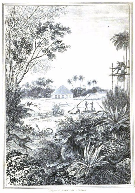 Illustration from Sardu: Daniel Johnson (surgeon), Sketches of Indian Field-Sports (1827).